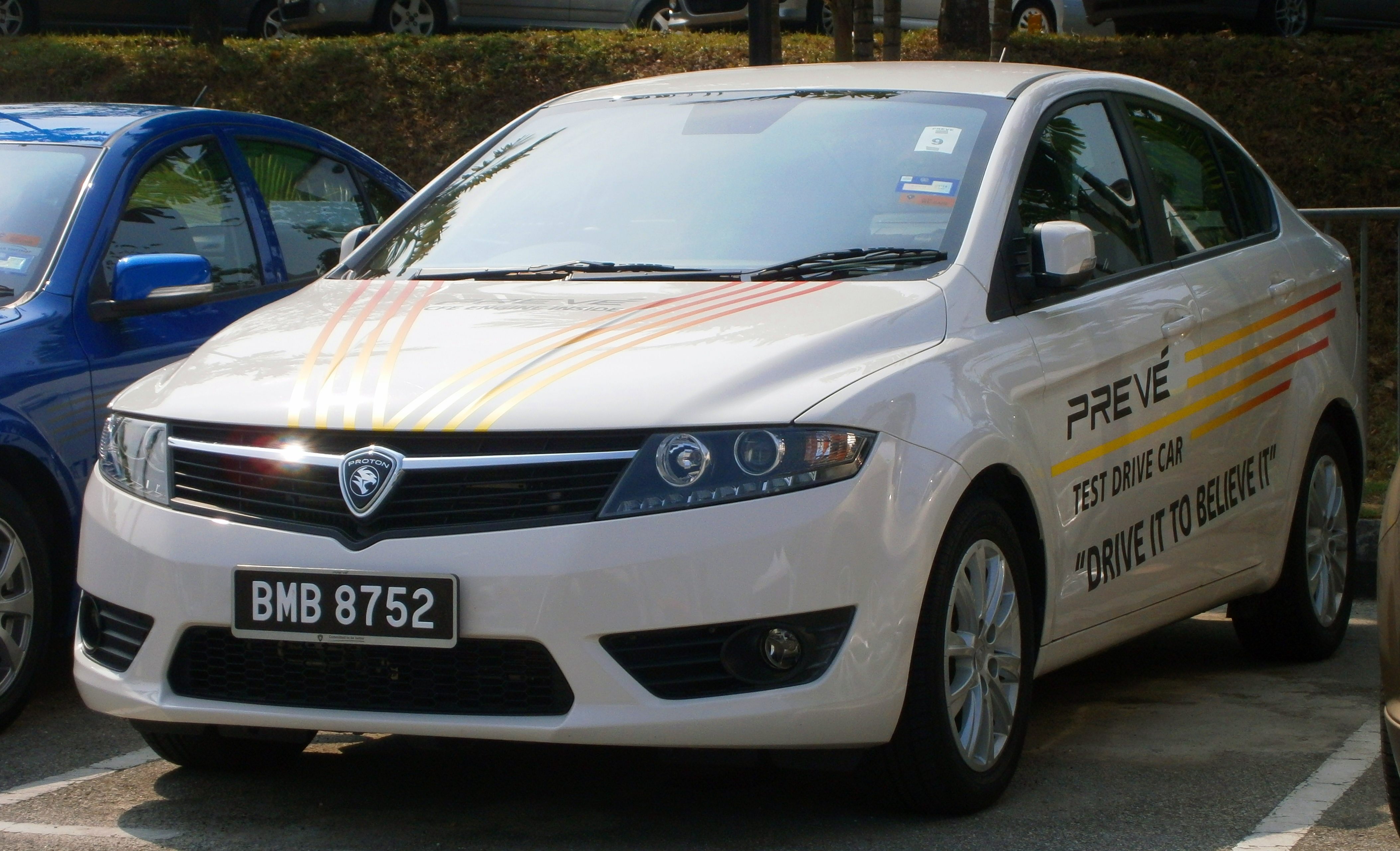 2013 Proton Prevé Premium (Test Drive Car) in Glenmarie, Malaysia. Colour : Solid White Designed & Assembled in Malaysia